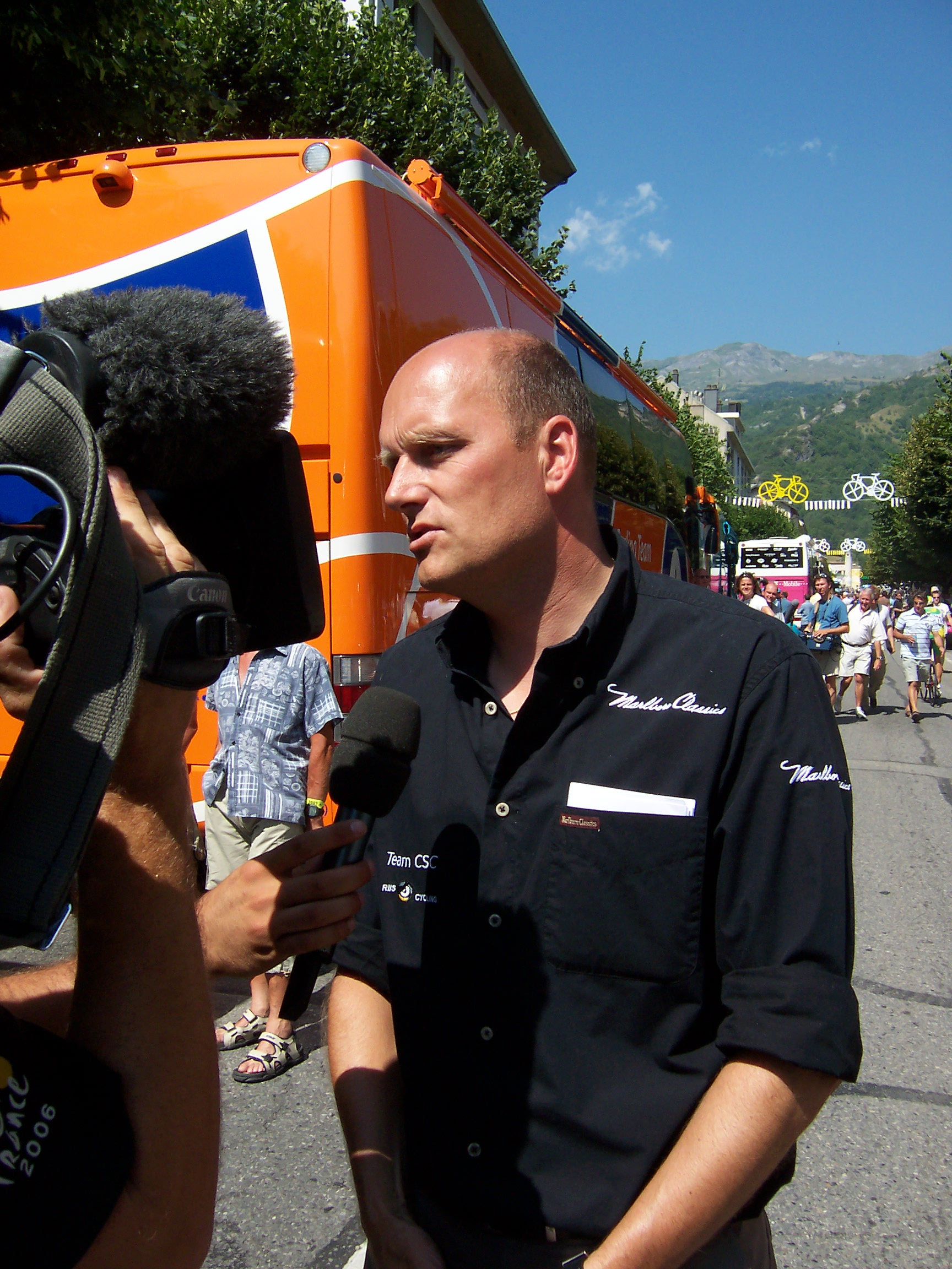 Bjarne Riis in the Tour de France 2006